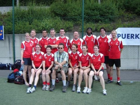 old highbury